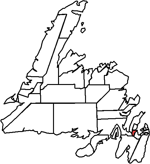 Maps based on images by Earl Warren, from the 2007 elections